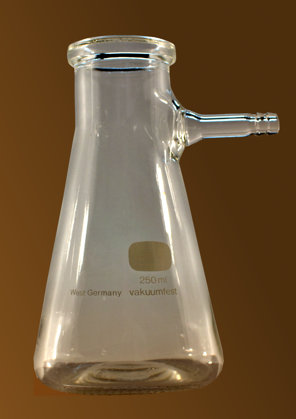 Büchner Flask brown backround